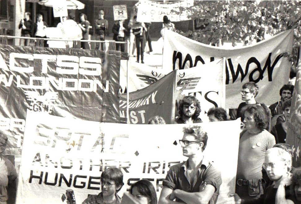 The 'Workers March for Irish Freedom' took the case of Ireland's hunger strikers to the Trades Union Congress in 1981